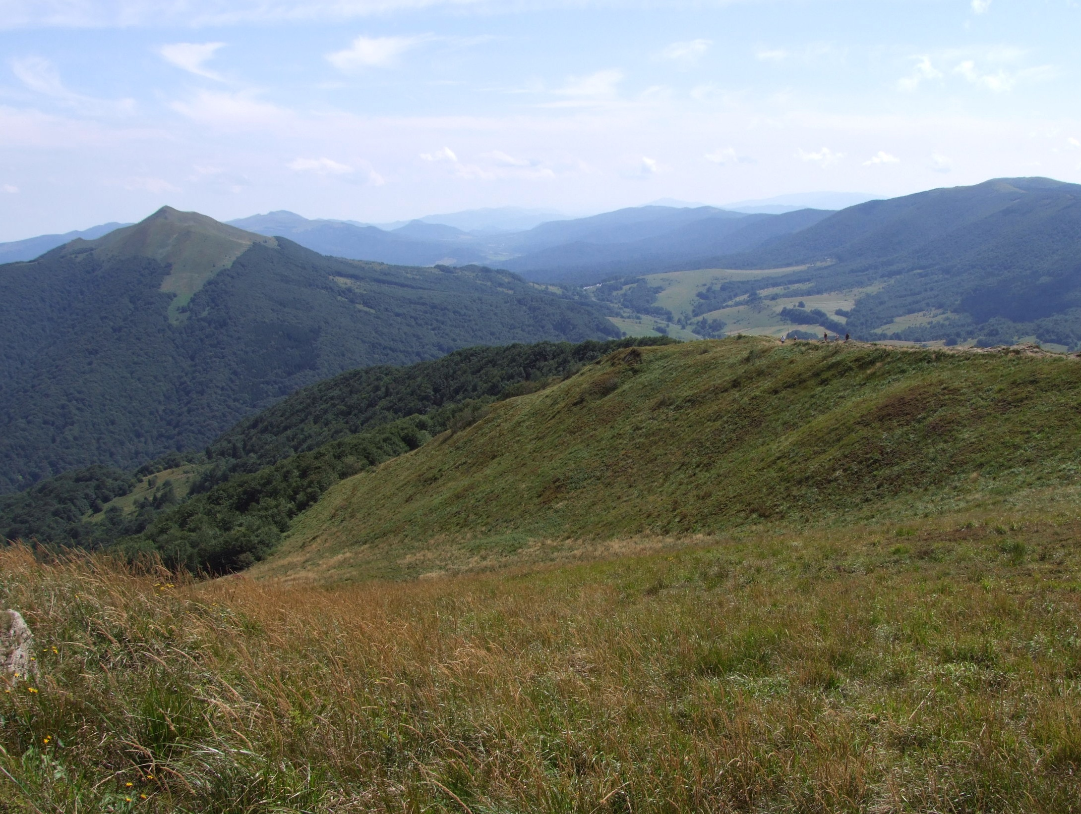 Widok z Połoniny Wetlińskiej na Połoninę Caryńską i Przełęcz Wyżniańską